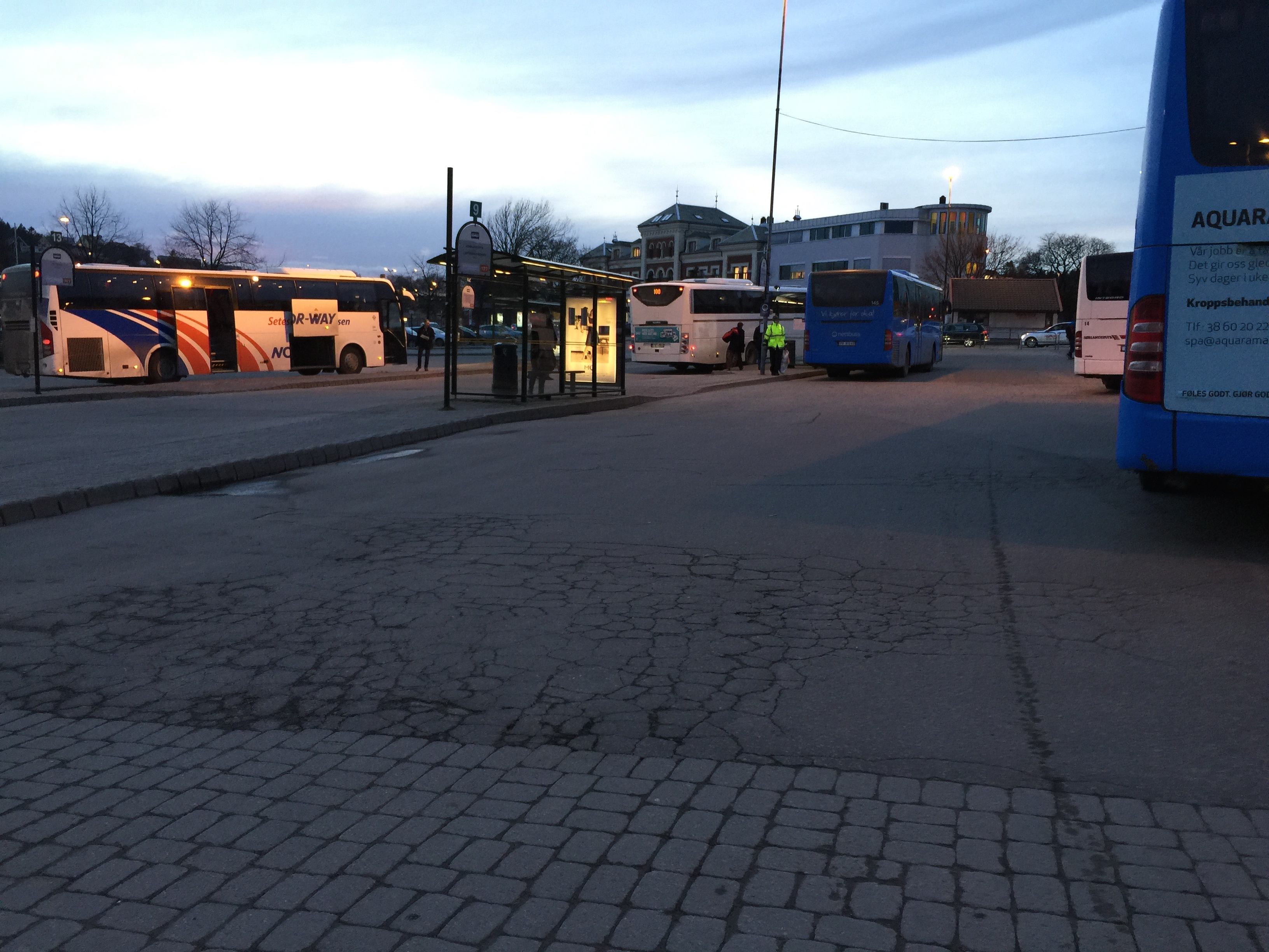 Rtb st. Kristiansand